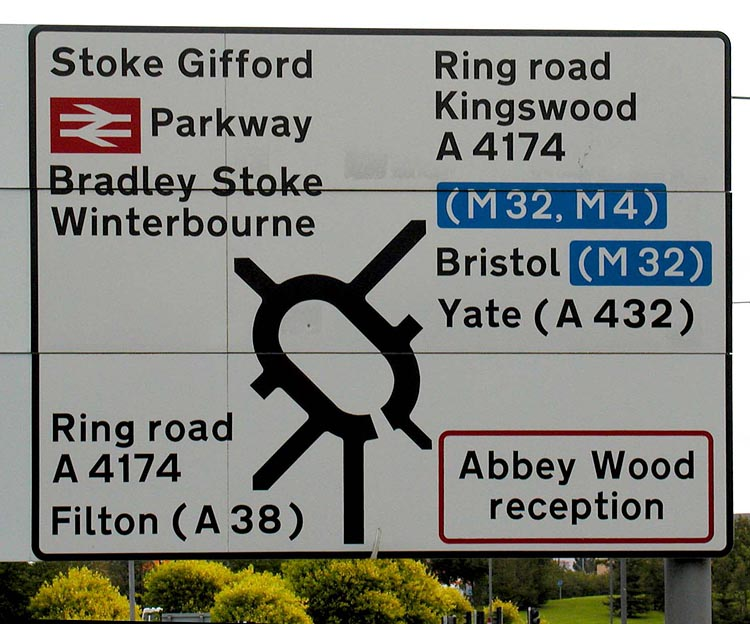 A road sign near Bristol, England. The direction sign is patched according to the Guildford Rules. It gives directions to (Bristol) Parkway railway station (red British Rail symbol), motorways (blue-background patches), and towns reached via non-primary A-roads. Red-edged patches and red-bordered signs are used for military establishments (the Ministry of Defence at Abbey Wood in this example). Destinations which are reached indirectly have the corresponding road number in brackets; for instance, this sign says that Filton is reached by following the A4174 ring road to the A38, and then turning onto the A38 for Filton.